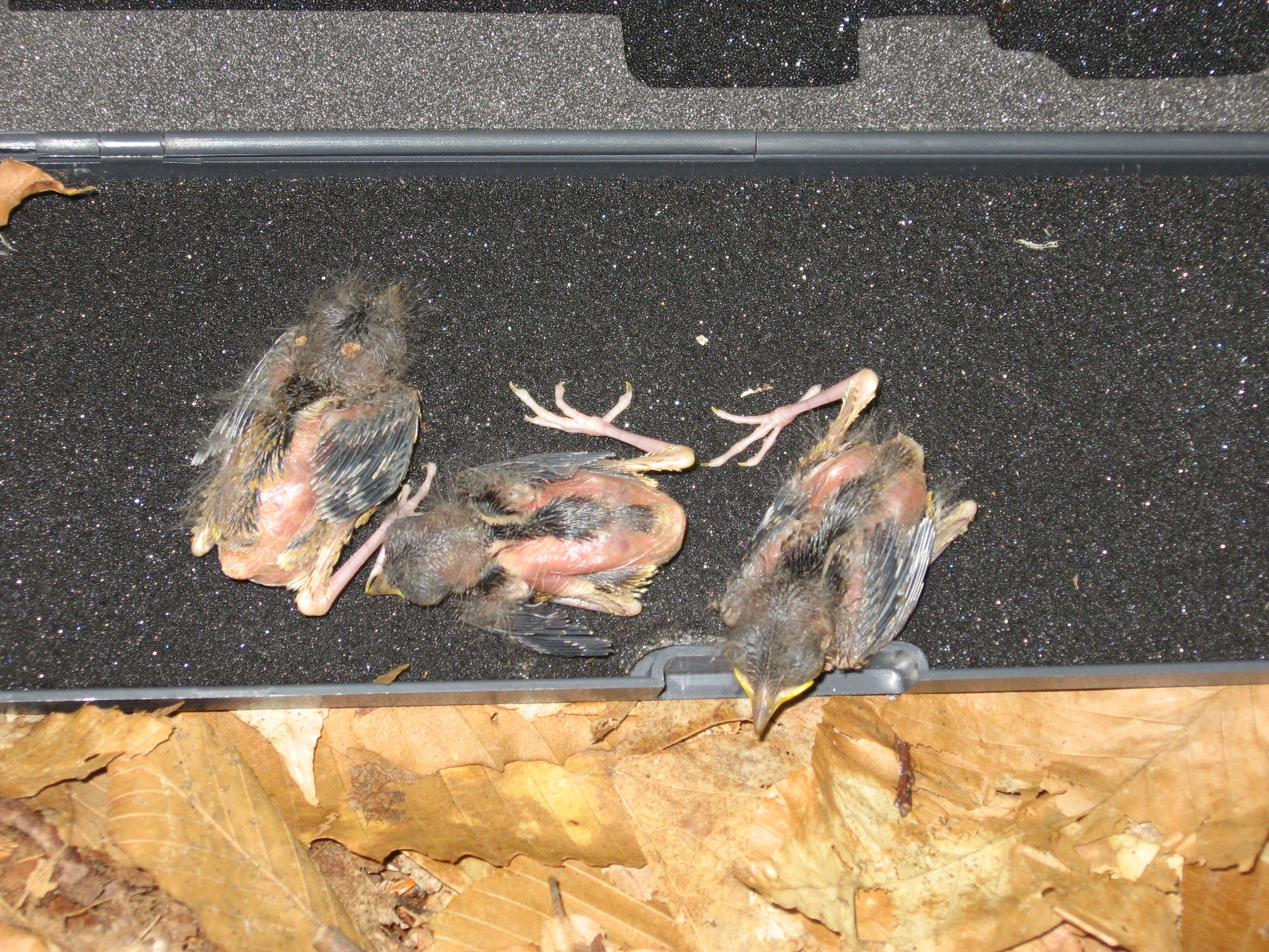 Six day-old Seiurus aurocapilla (ovenbird) chicks at the Bear Brook Watershed on Lead Mountain, Maine.